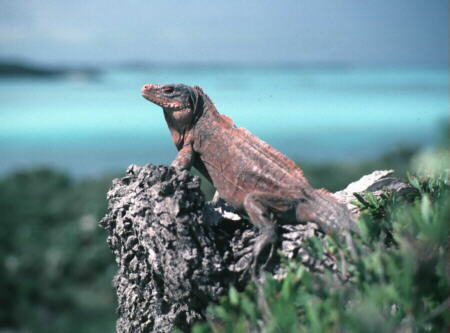 Photo of Cyclura rileyi nuchalis taken by Dr. William Hayes and uploaded with permission.